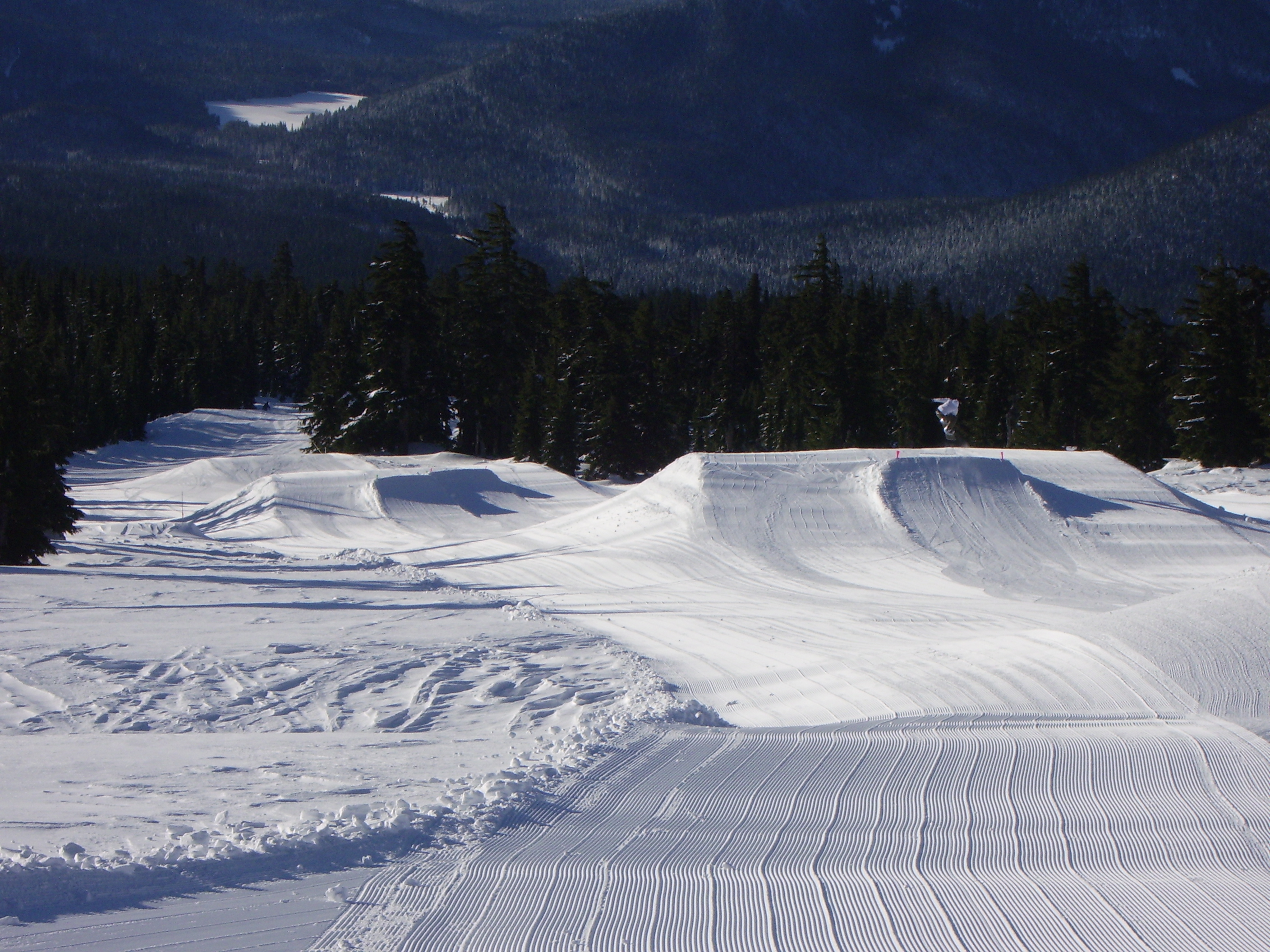 Terrain park at a ski resort showing 3 jumps each with a variety of entries. In the distance is snow-covered Trillium Lake in Oregon.